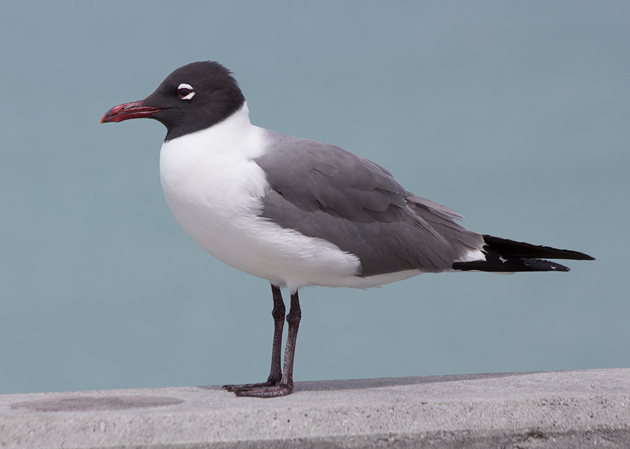 Laughing Gull Leucophaeus atricilla, breeding plumage. On a pier at Wrightsville Beach, North Carolina.